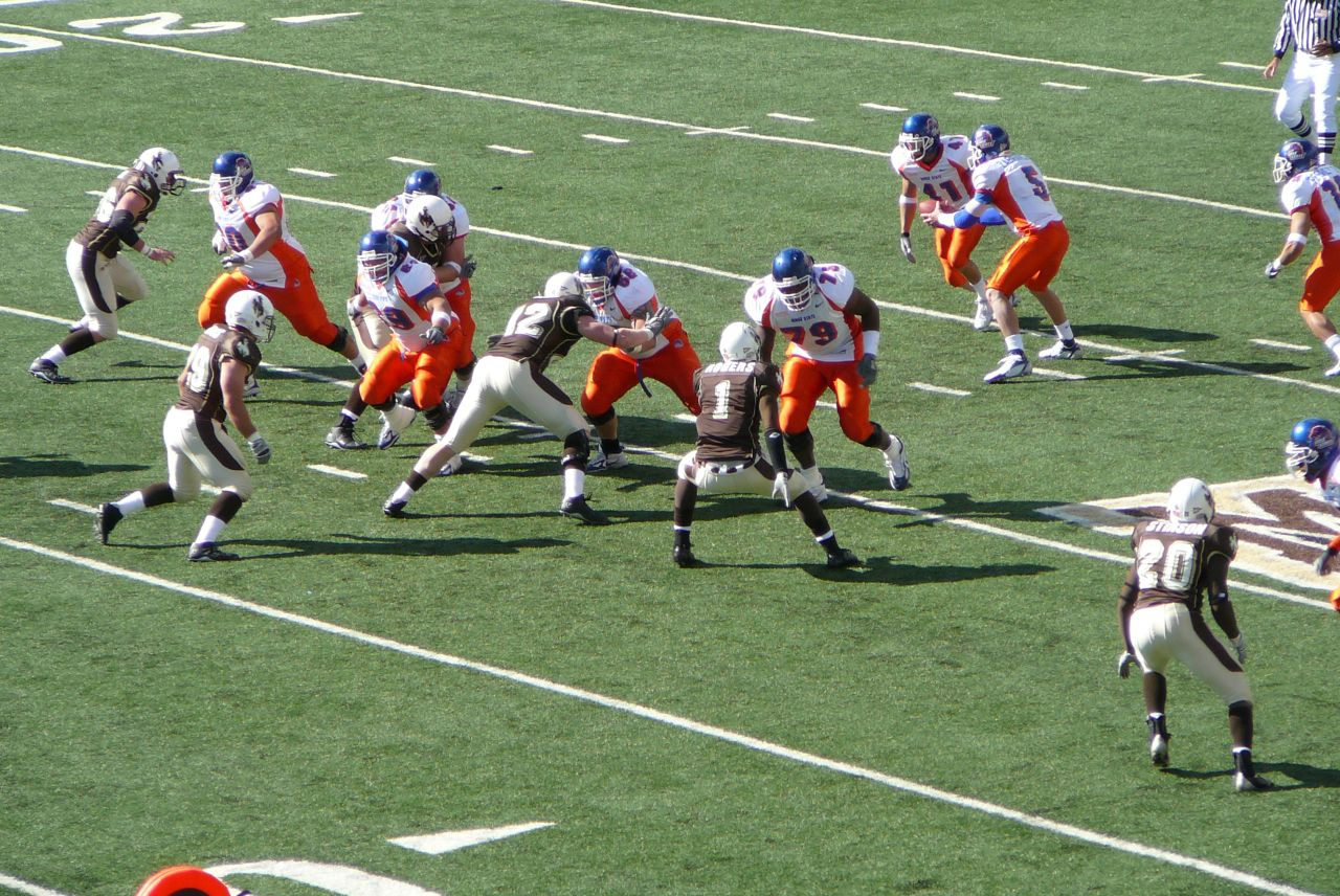 Who knew if we'd beat them like we should've, they wouldn't have given us the best college football game in recent history a few months later in the Fiesta Bowl.